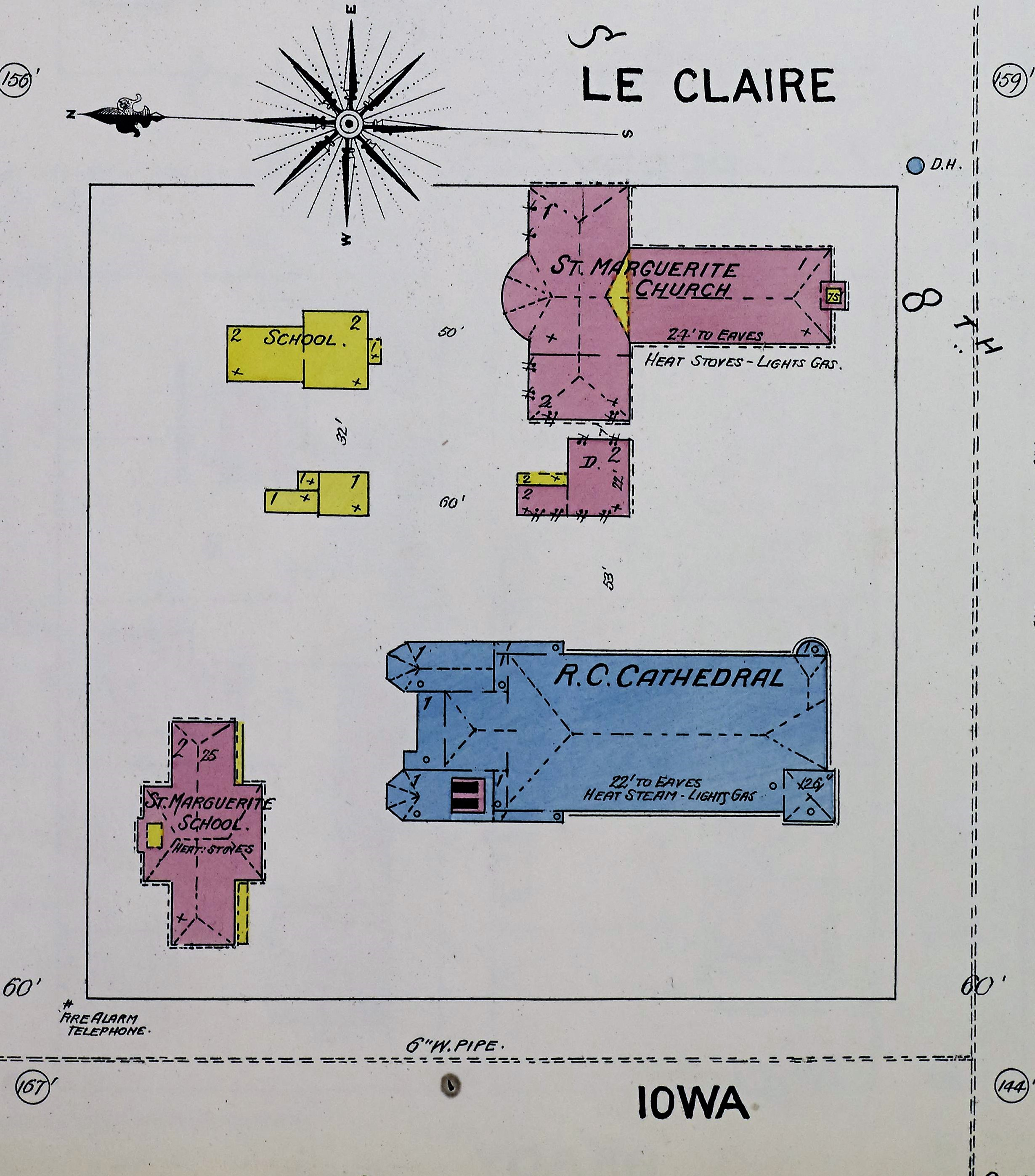 An 1892 Sanborn Fire Insurance Map cropped to show the Catholic Cathedral property in Davenport, Iowa, United States. The older St. Margaret's (Marguerite) Cathedral is in pink at the top of the property and the newer Sacred Heart Cathedral is in blue at the bottom. The rectory (pink) is next to St. Margaret's. The main school building (pink) is in the lower-left corner. Another school building and the convent are in yellow.